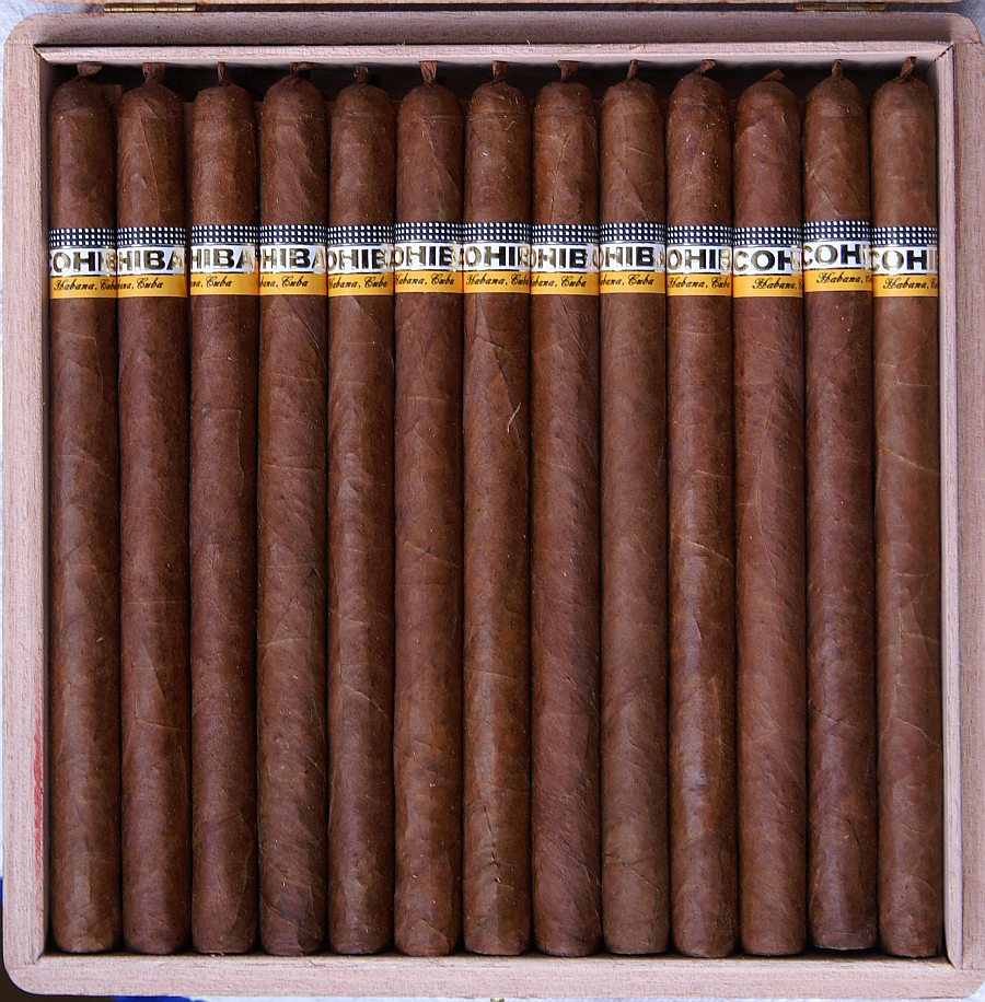 Box of Cohiba Lanceros